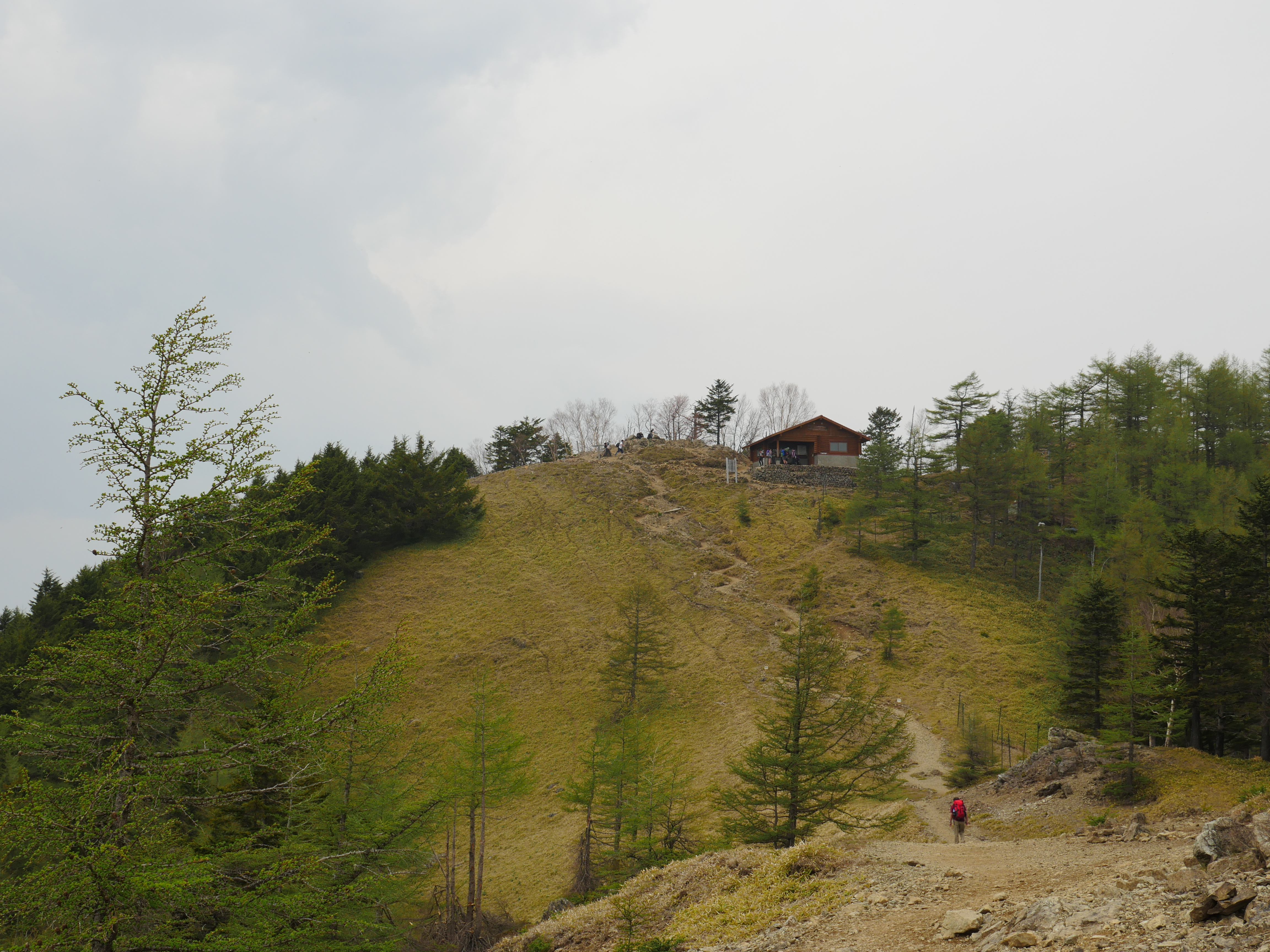 The top of mt. Kumotori, Japan